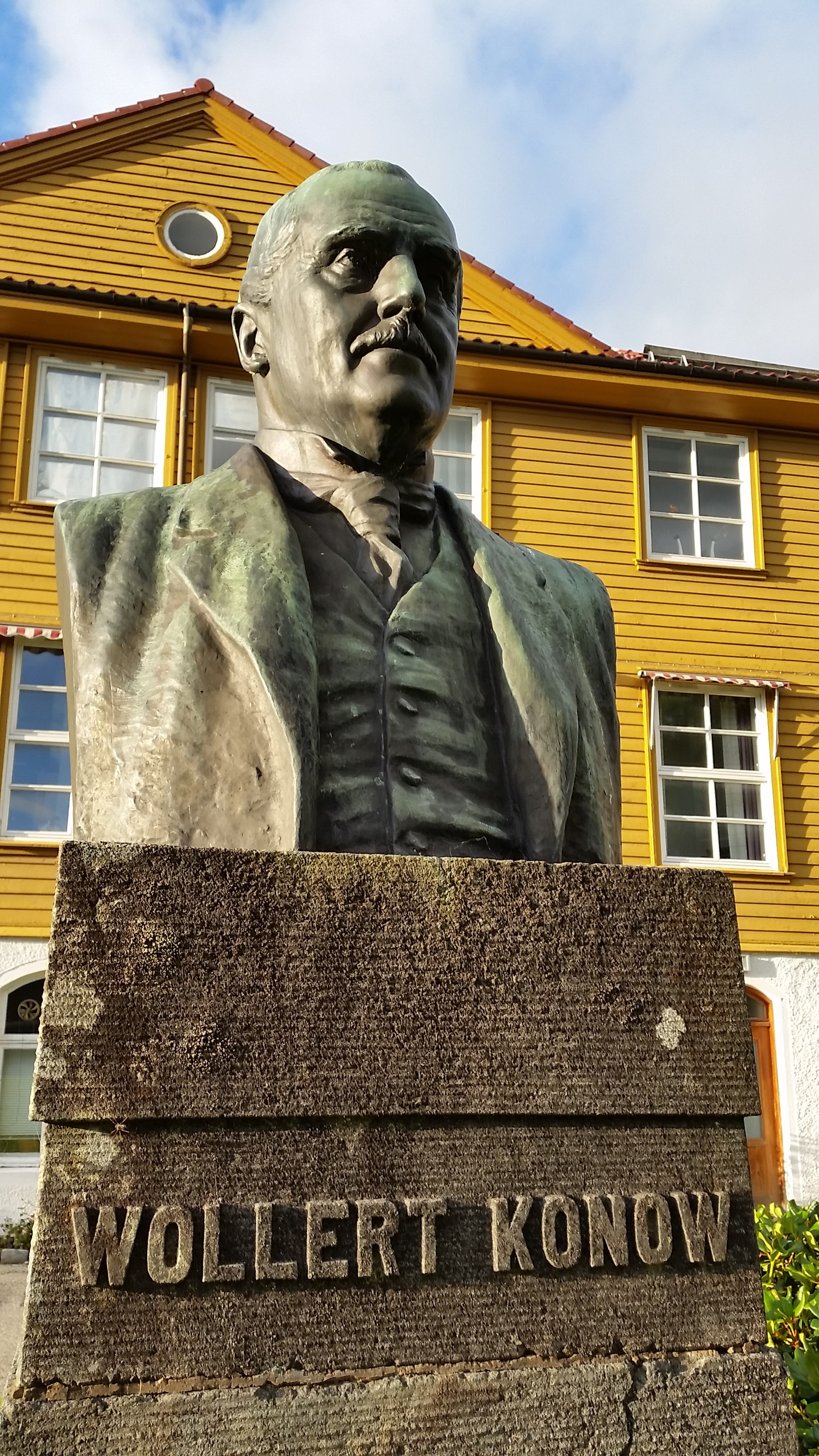 Wollert Konow (SB) - Bust by Ambrosia Tønnesen Placed outside Fana old councilhall, Nesttun, south of Bergen.